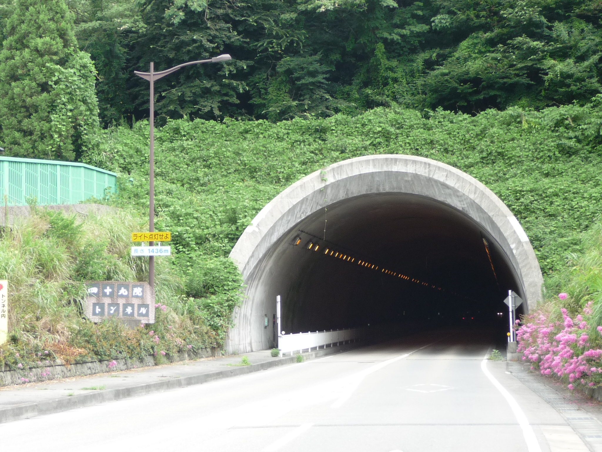 Shijukuin Tunnel, Yamanaka onsen, Kaga, Ishikawa, 2008 Aug.